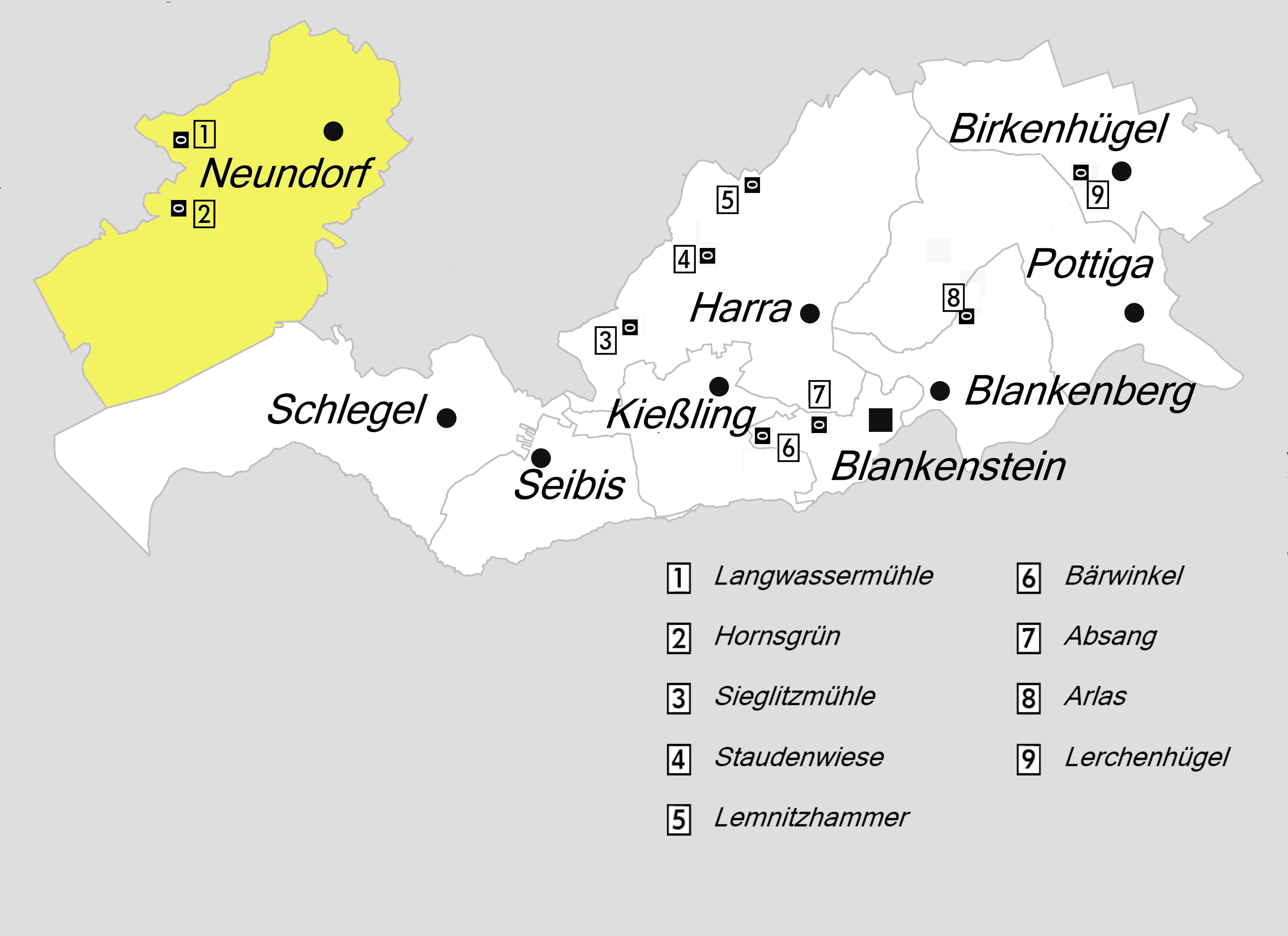 District-Maps of Rosenthal am Rennsteig